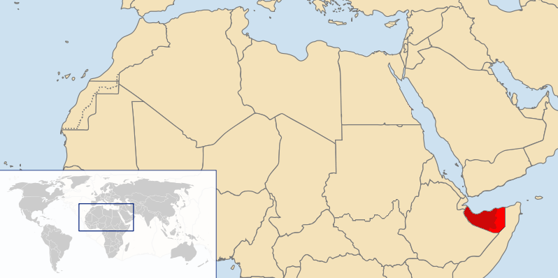 Map showing the location of Somaliland